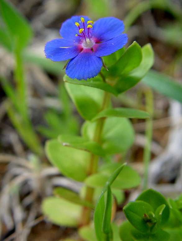 Anagallis arvensis f. azurea (?)